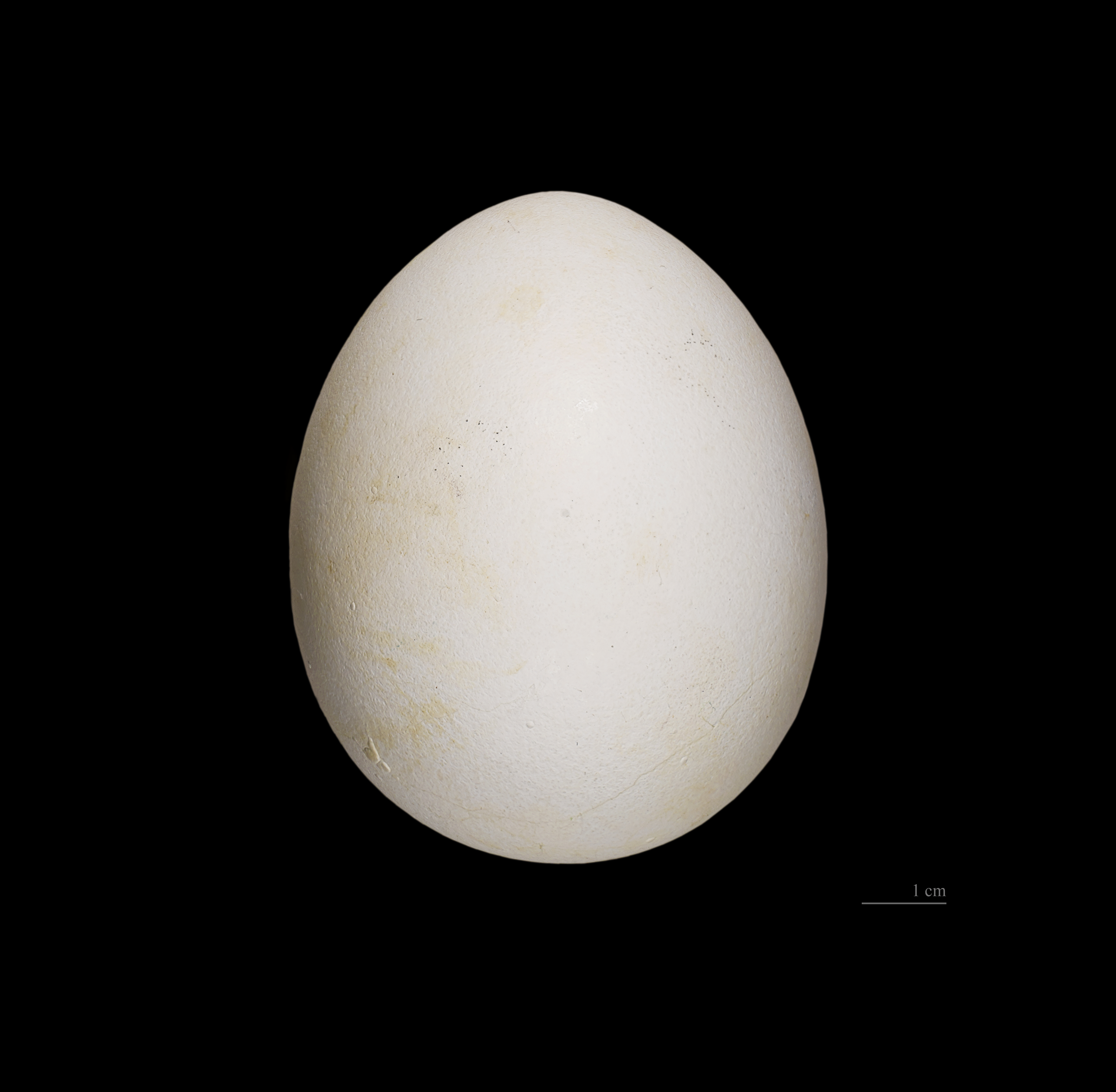 Egg of African Fish Eagle. Collection of René de Naurois / Jacques Perrin de Brichambaut. Locality: Delta of Senegal, Senegal.